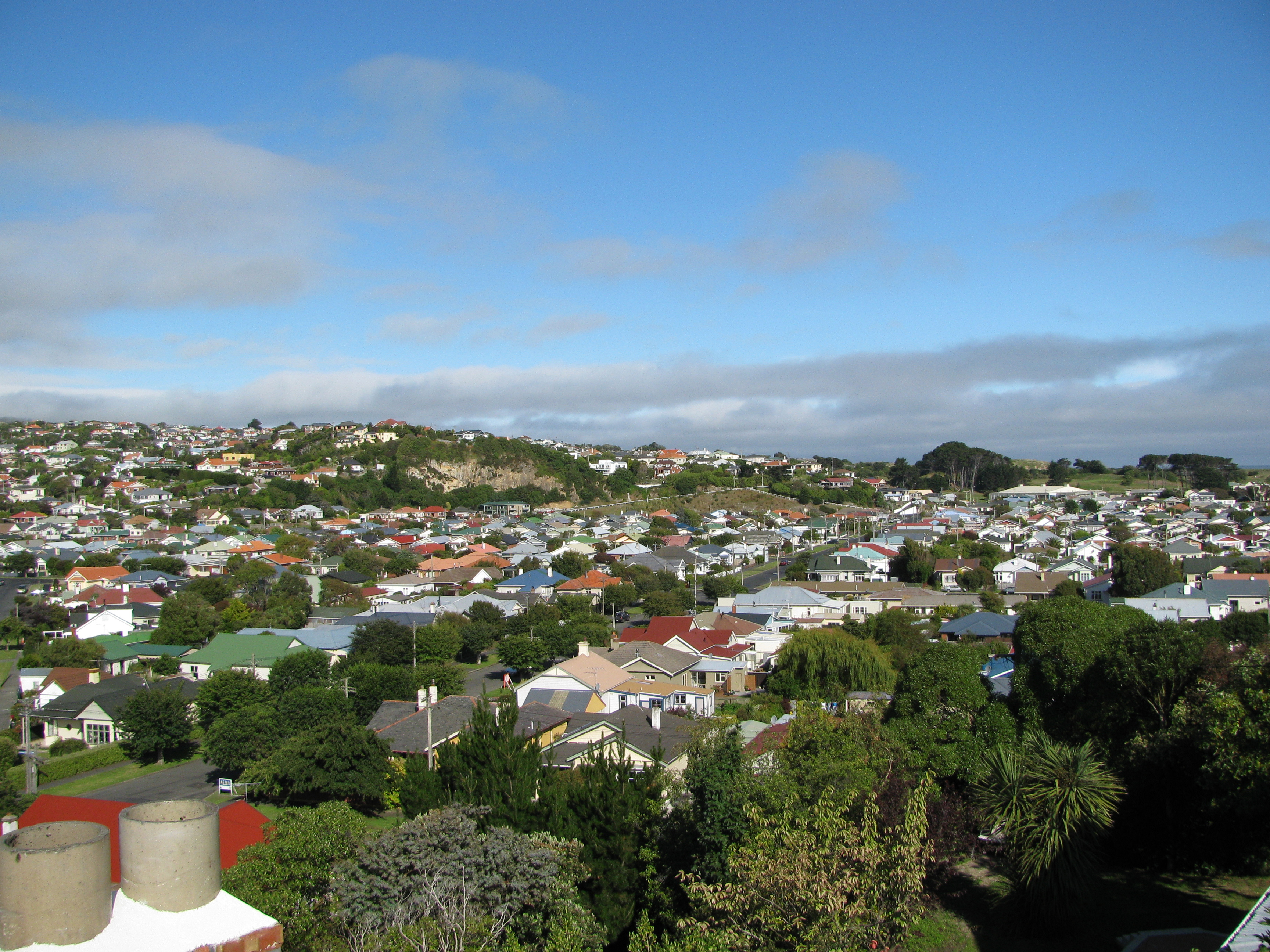 View over the suburb of Tainui, Dunedin